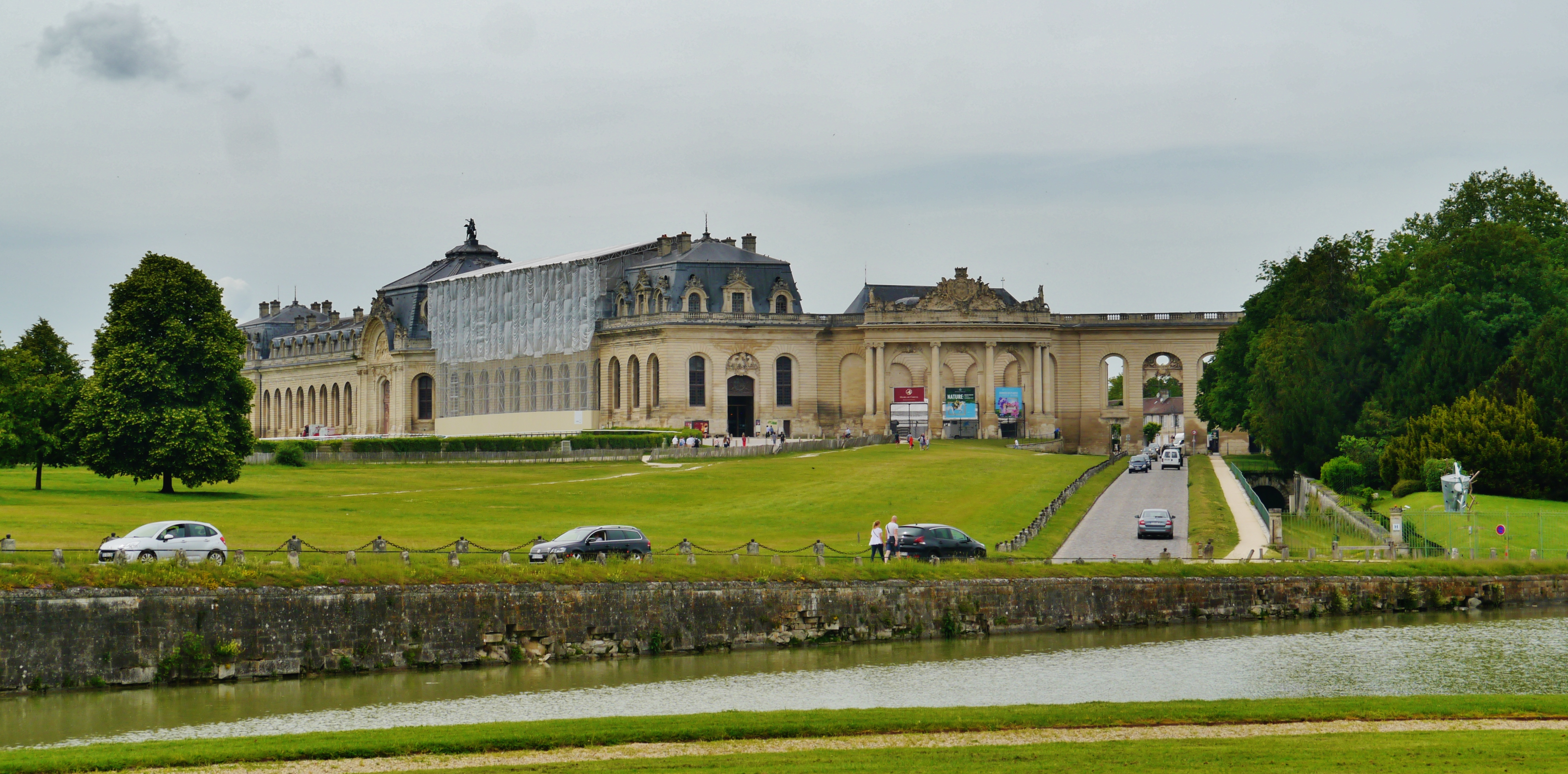 Horse Museum of Chantilly Palace, Chantilly, Department of Oise, Region of Upper France (former Picardy), France